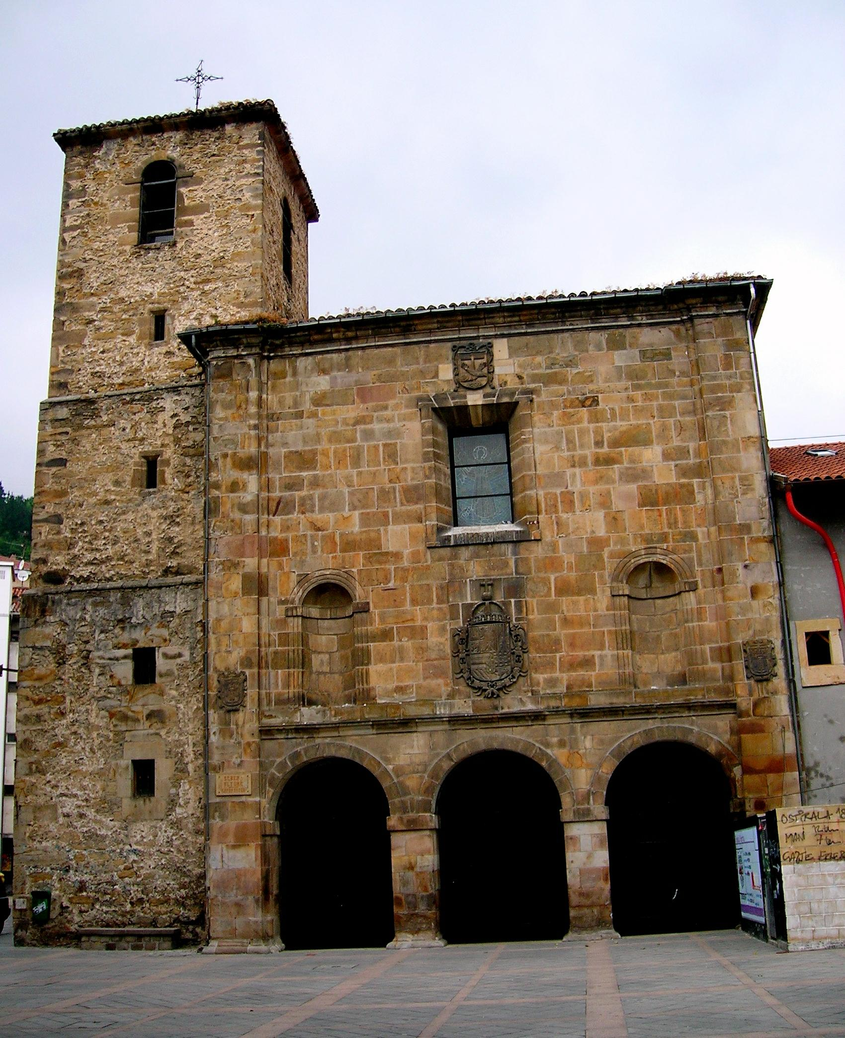 Iglesia de San Francisco, en Arrasate/Mondragón (Guipúzcoa, País Vasco, España)